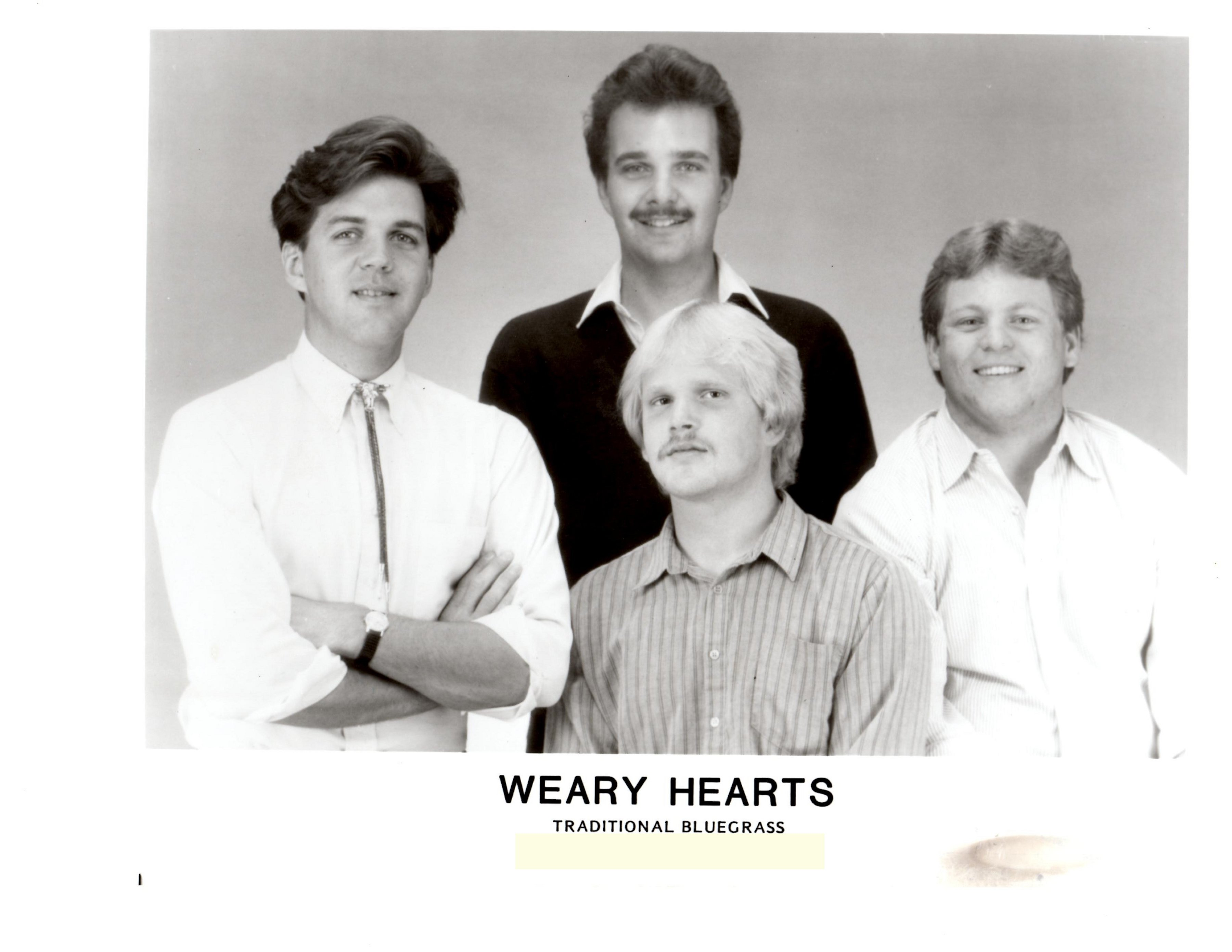 Weary Hearts Bluegrass Band. Left to Right: Butch Baldassari, Eric Uglum, Ron Block (bottom center), Mike Bub